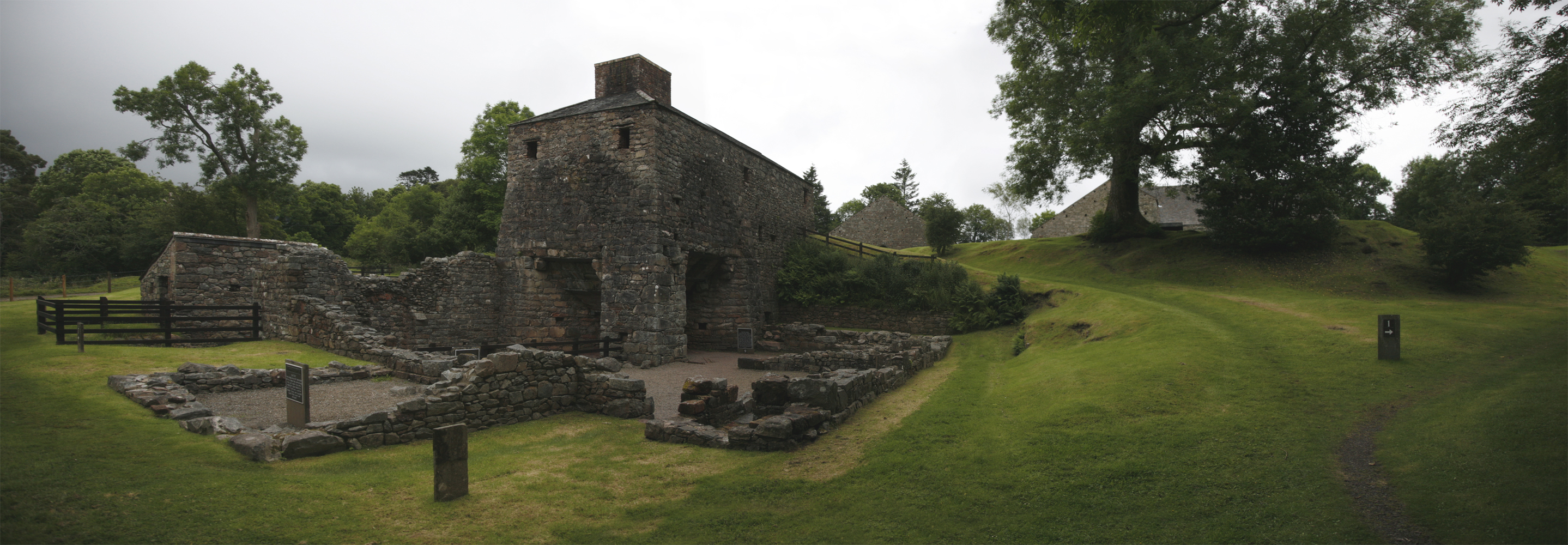 Great Britain, Bonawe, Iron Furnace